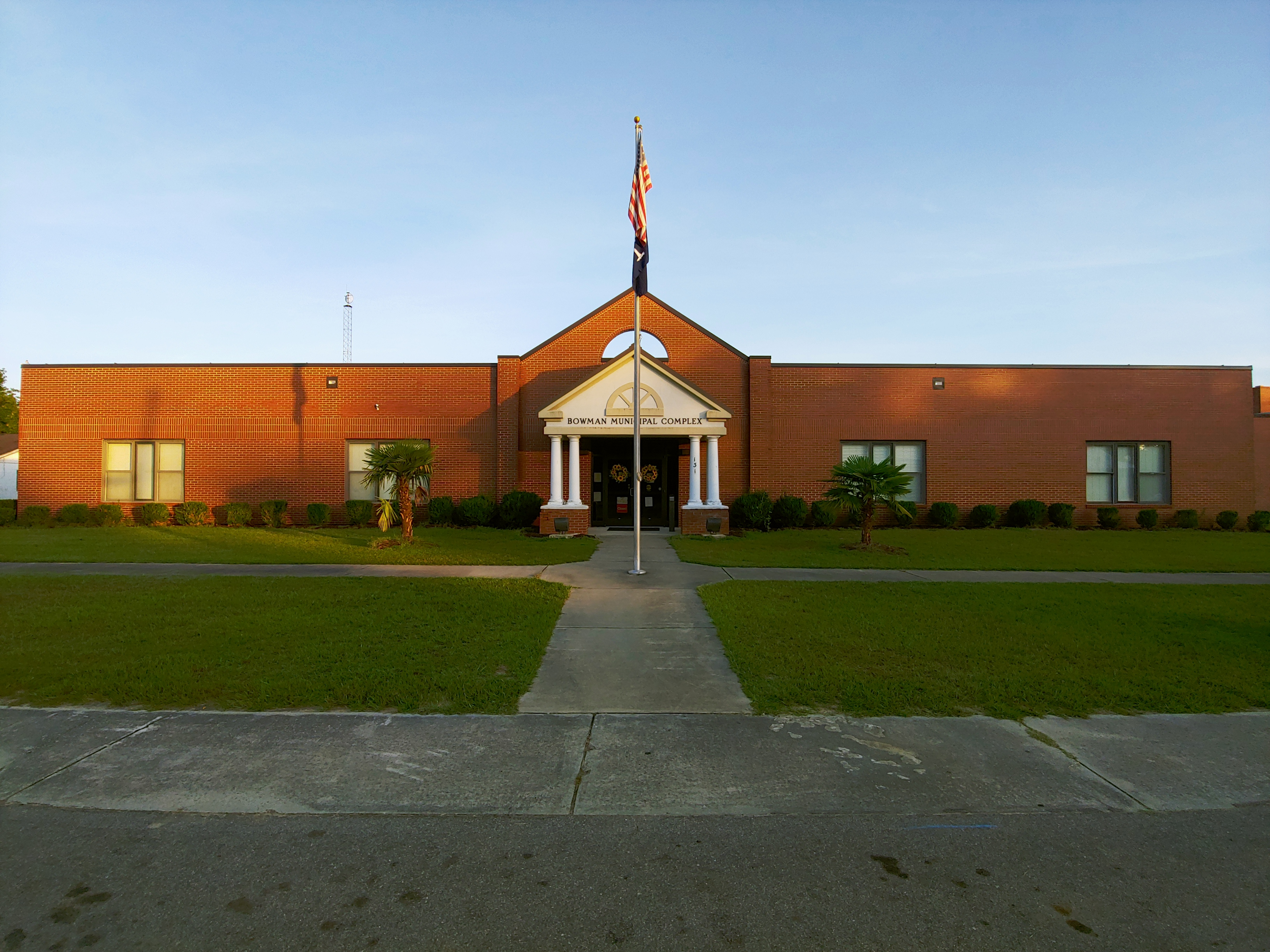 The town hall of Bowman, South Carolina. The building was once an elementary school.